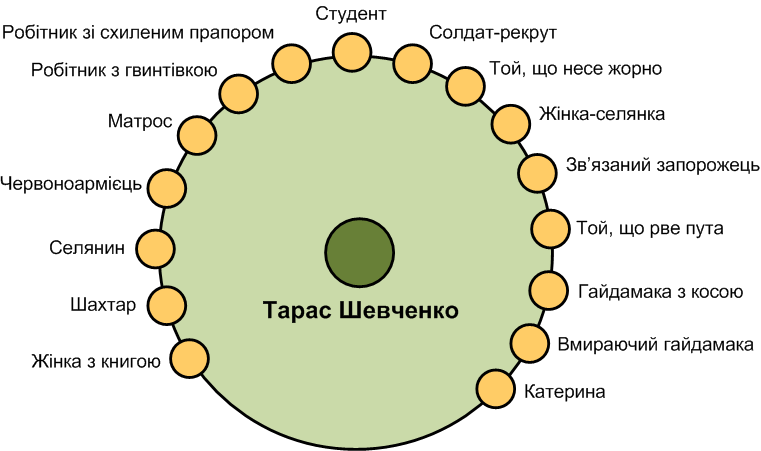 Scheme of sculptures at Taras Shevckenko's monument in Kharkov